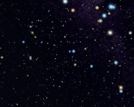 Image of Telescopium